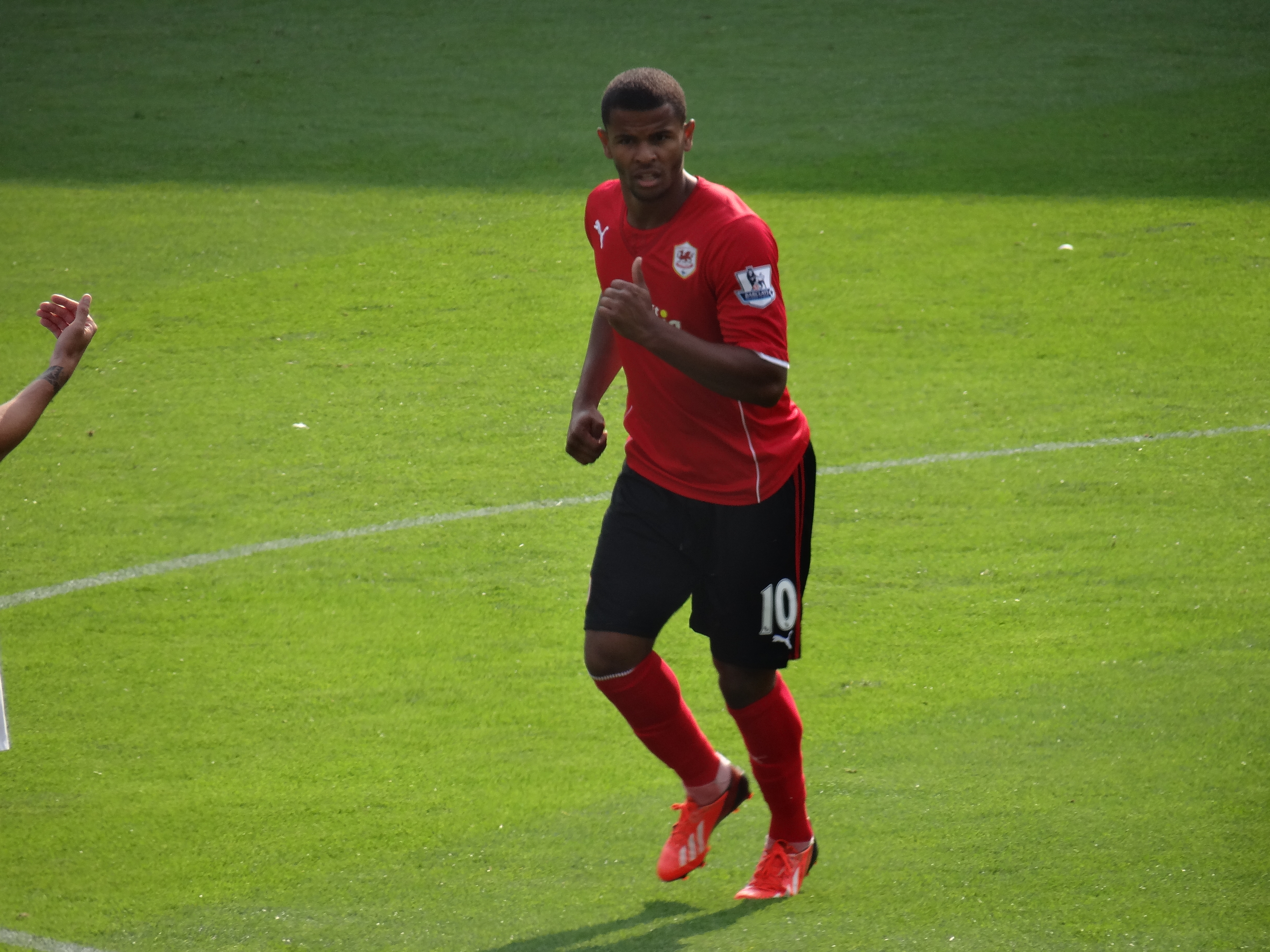 Fraizer Campbell playing for Cardiff City in 2013.